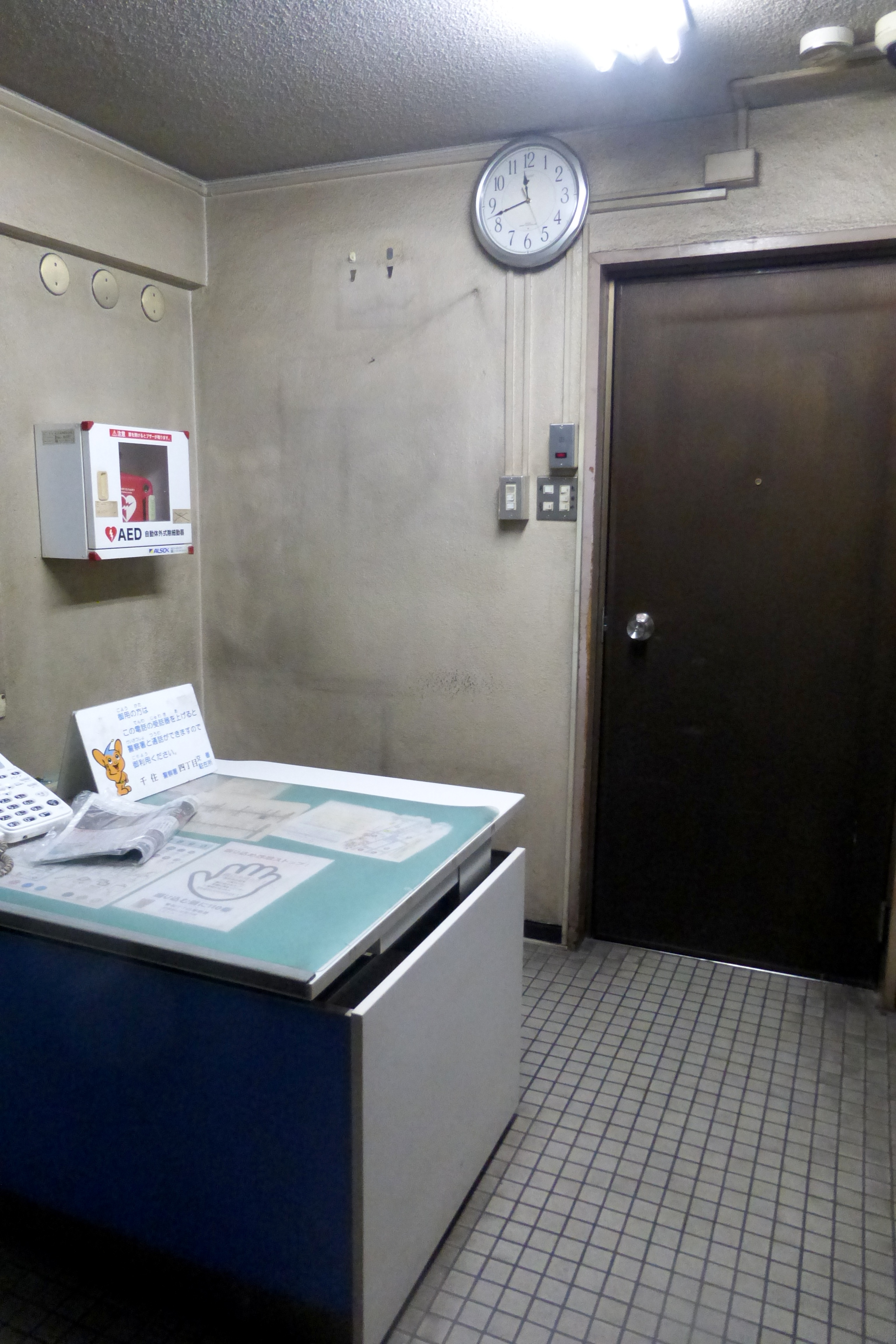 Inside a typical Kōban, a Japanese neighborhood police substation. It is sometimes translated as "police box".